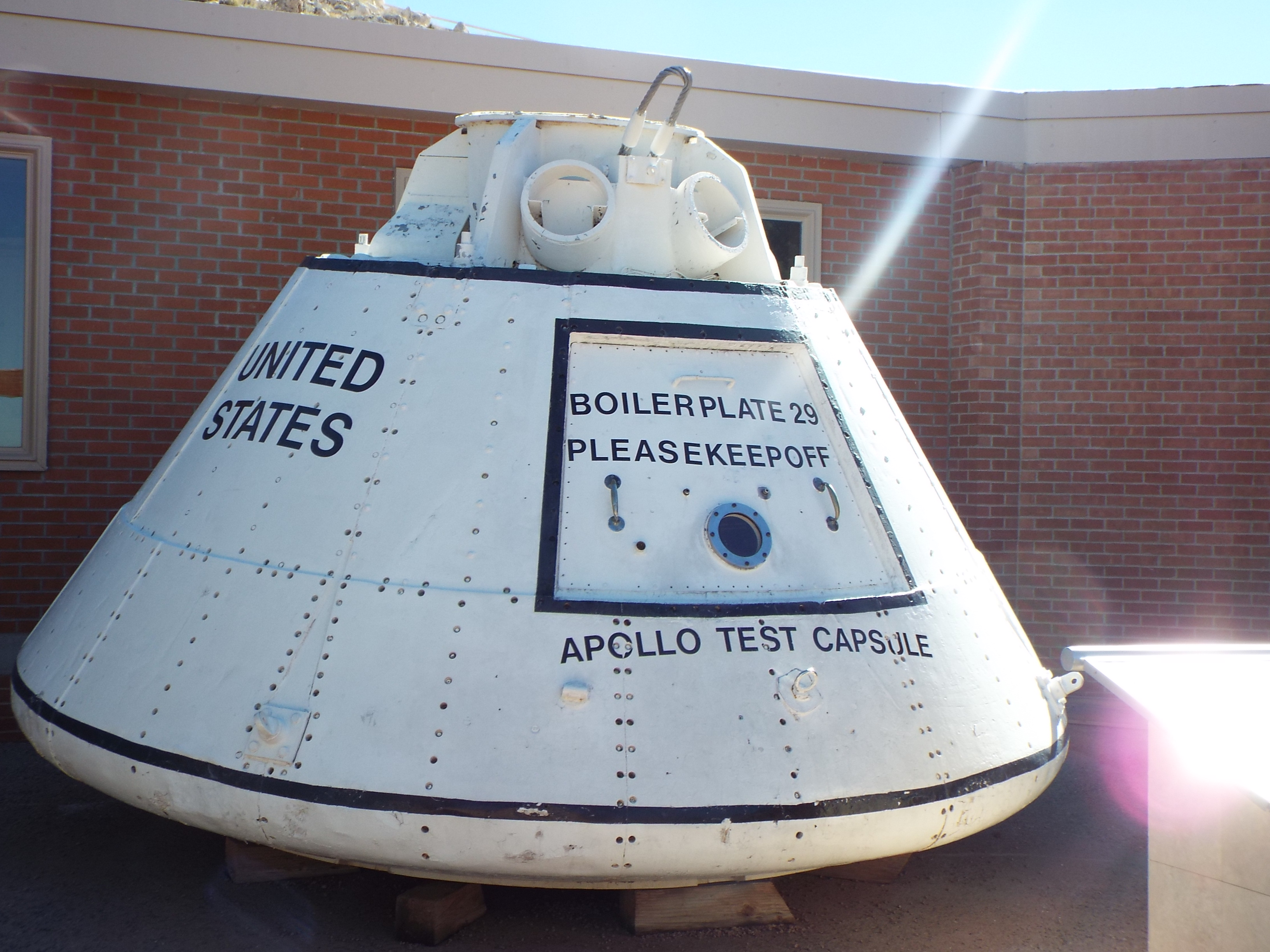 An Apollo Test Capsule. The capsule is on exhibit in the Meteor Crater Visitor Center located on exit 233 off Interstate 40 in Winslow, Arizona.